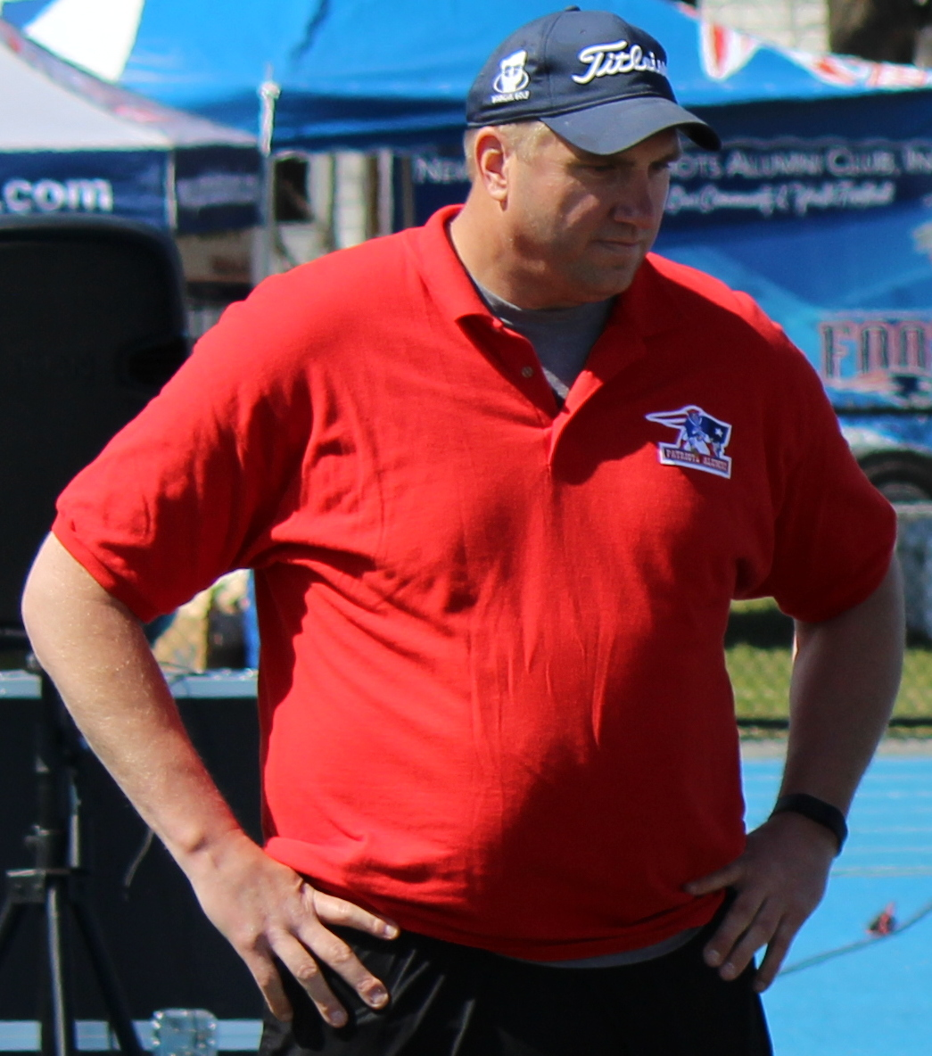 Max Lane and Chuck Wilson in Lawrence, Massachusetts in 2016